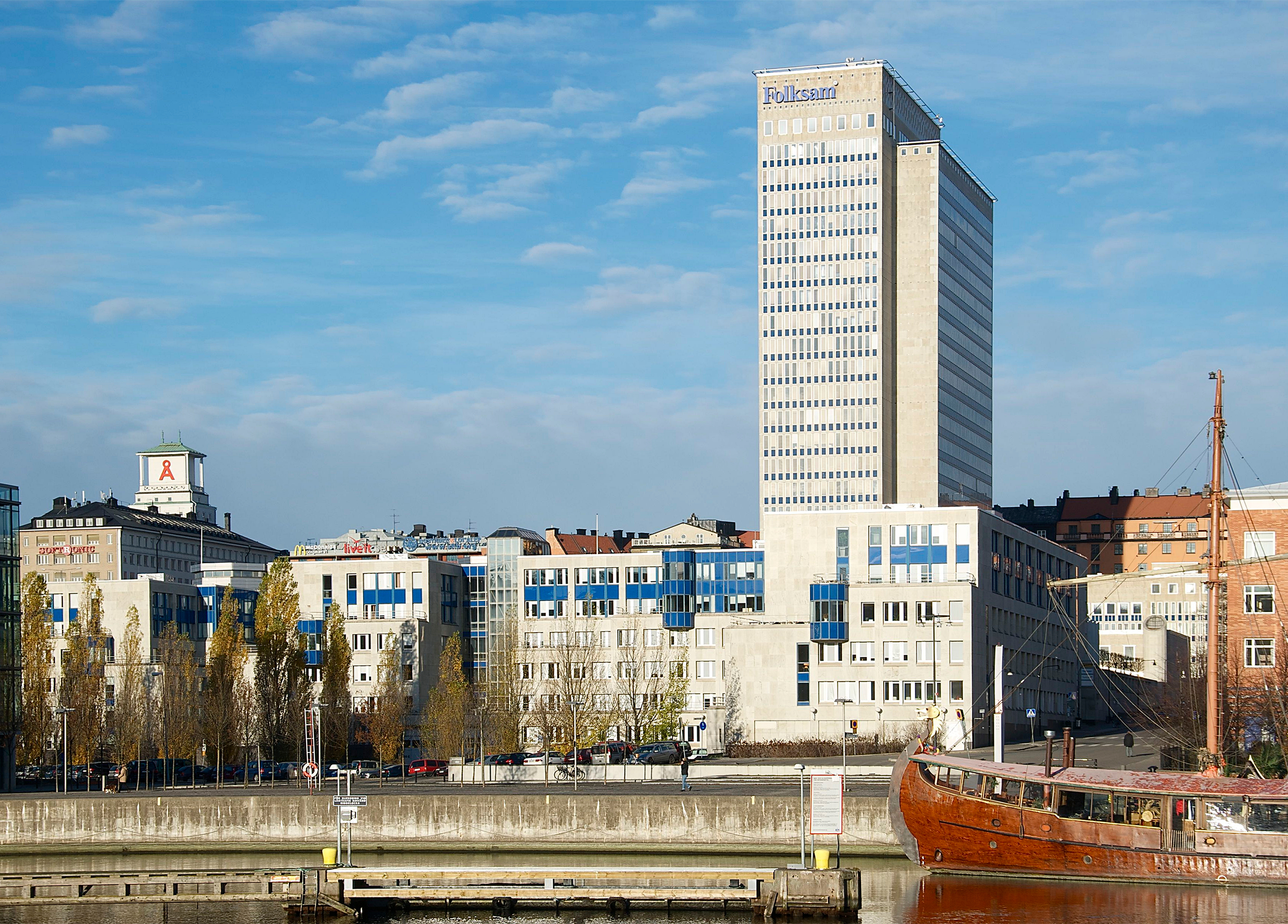 Folksamhuset, November 2011.